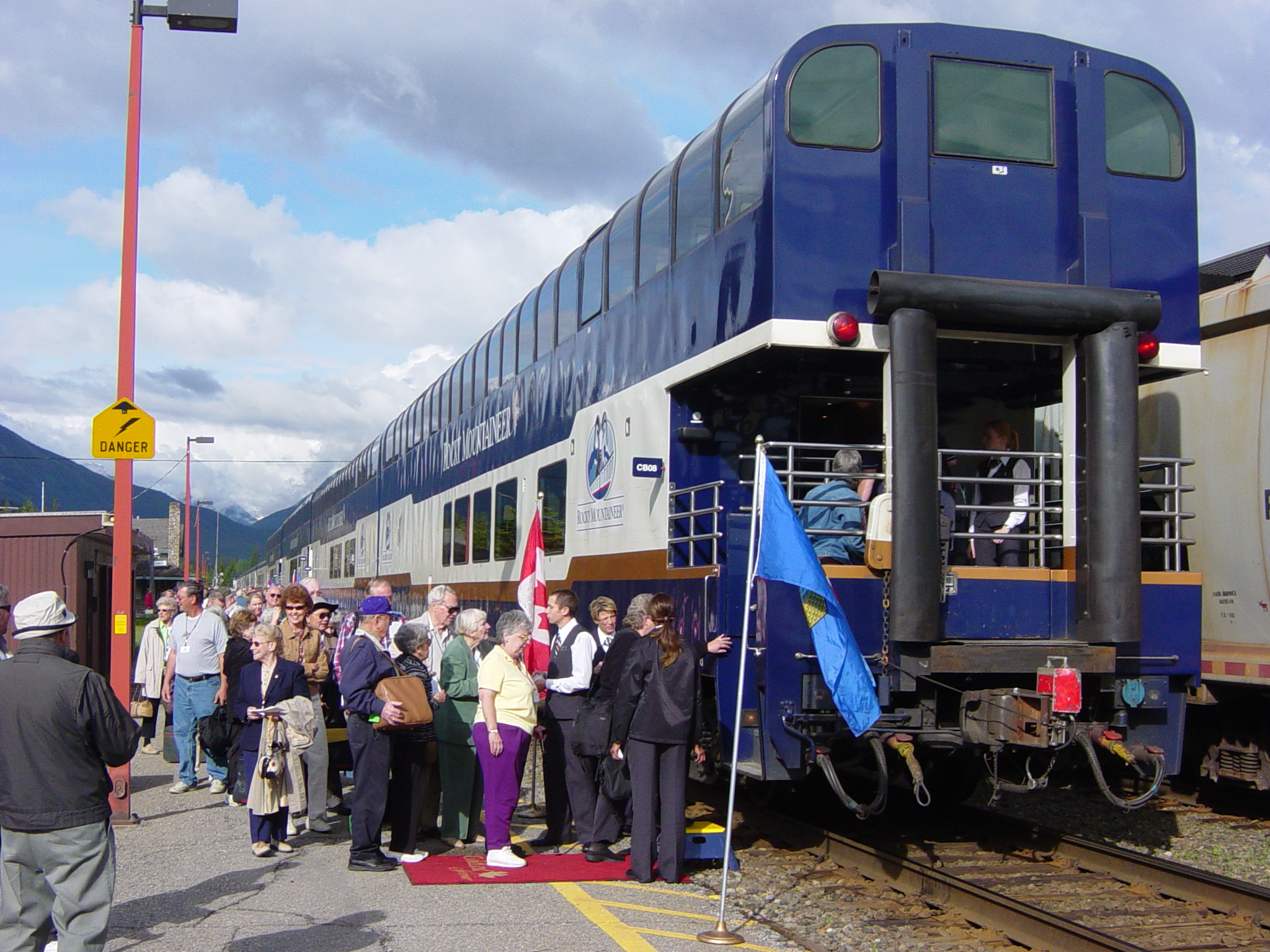 The Rocky Mountaineer boards at Banff. Image by User:Leonard G.